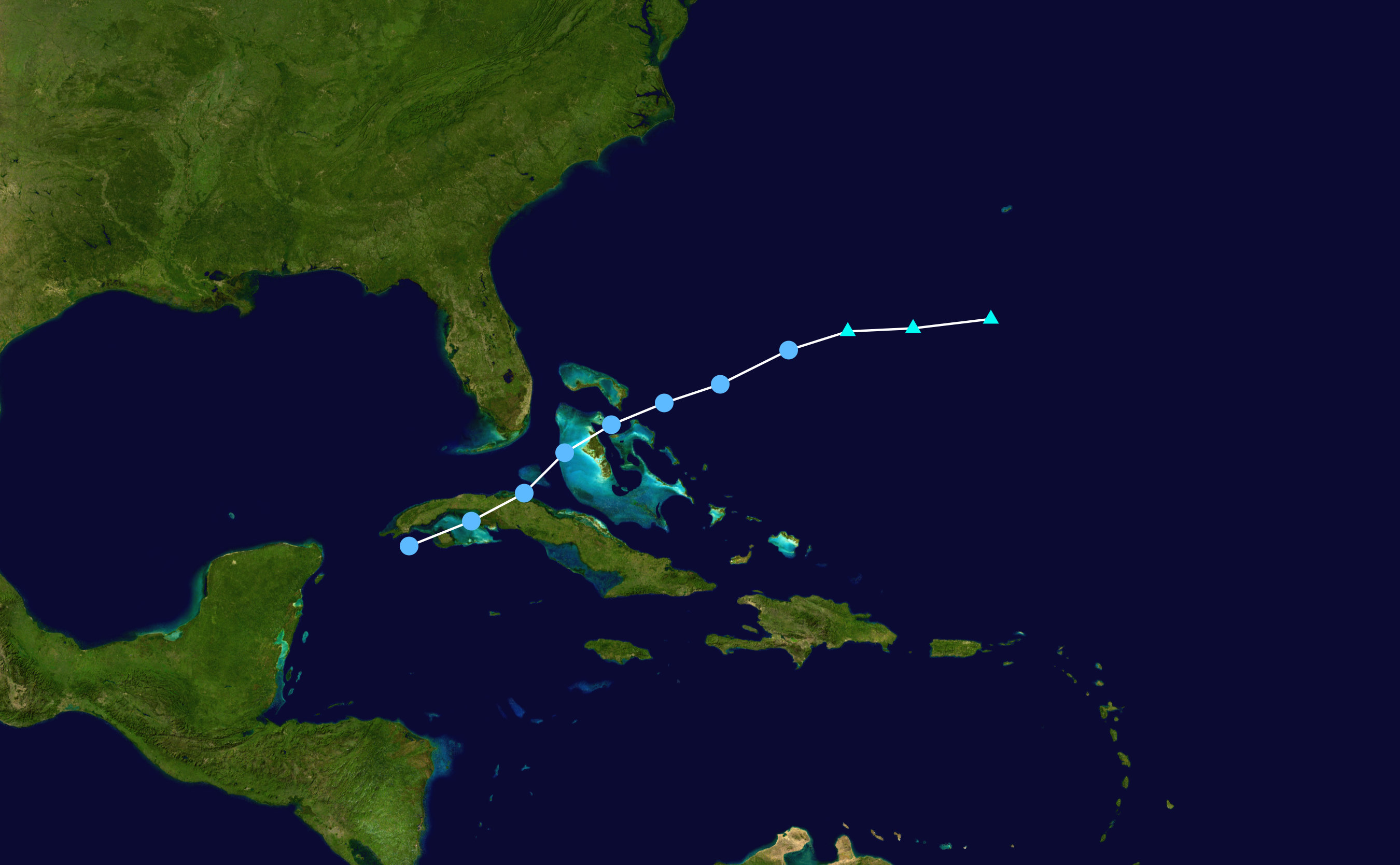 Track map of Tropical Depression One of the 1993 Atlantic hurricane season. The points show the location of the storm at 6-hour intervals. The colour represents the storm's maximum sustained wind speeds as classified in the Saffir–Simpson scale (see below), and the shape of the data points represent the nature of the storm, according to the legend below. Saffir–Simpson scale Tropical depression≤38 mph≤62 km/h Category 3111–129 mph178–208 km/h Tropical storm39–73 mph63–118 km/h Category 4130–156 mph209–251 km/h Category 174–95 mph119–153 km/h Category 5≥157 mph≥252 km/h Category 296–110 mph154–177 km/h Unknown Storm type Tropical cyclone Subtropical cyclone Extratropical cyclone / Remnant low / Tropical disturbance / Monsoon depression